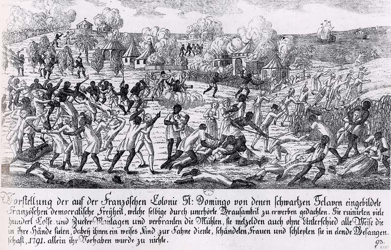 Fire in Saint-Domingo 1791, German copper engraving